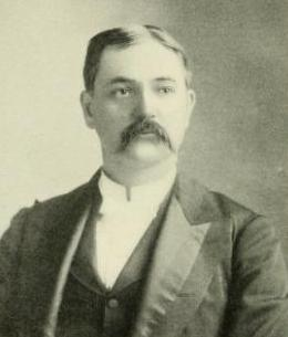 Samuel T. Baird, US Representative from Louisiana